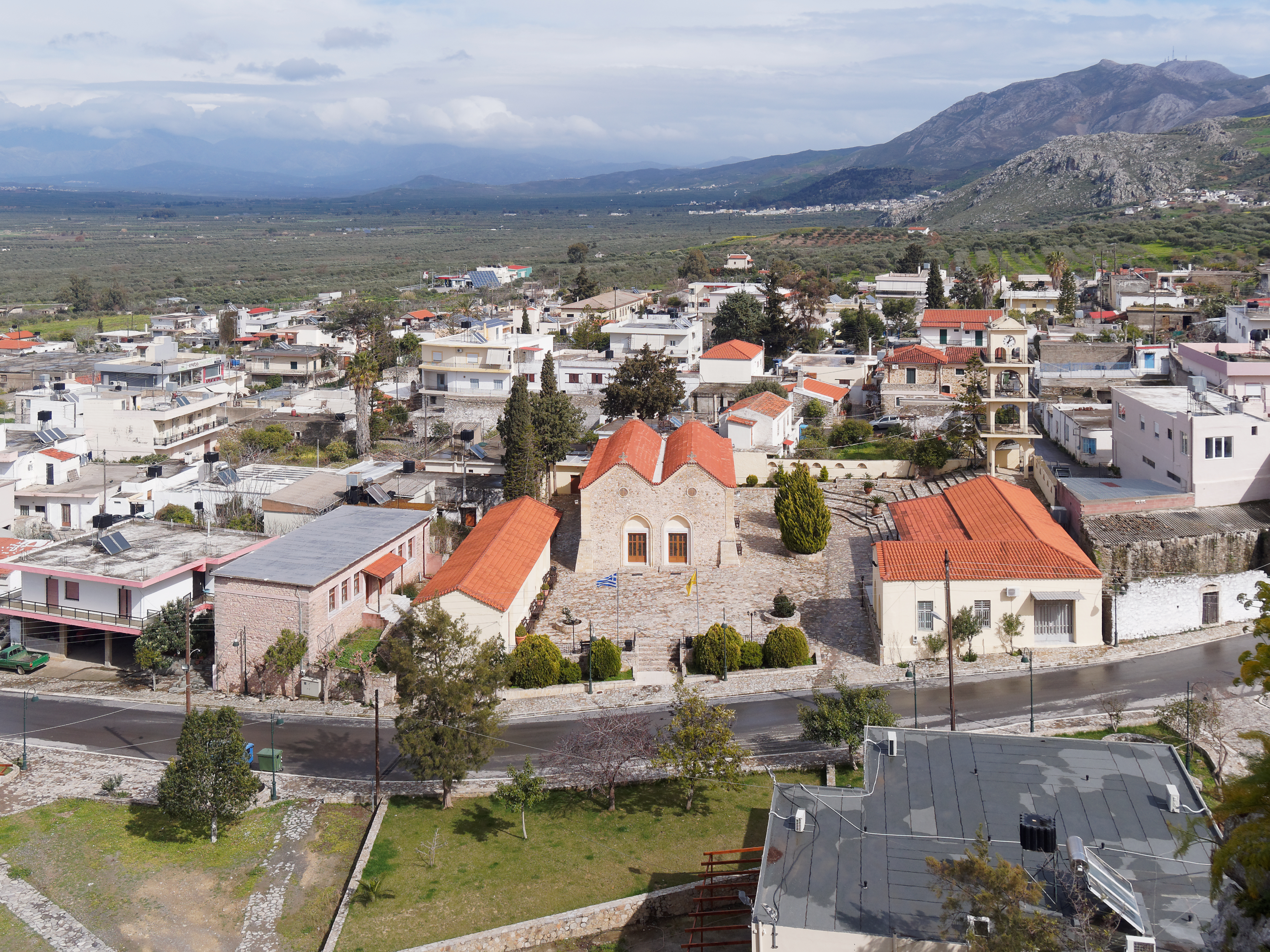 View of Charakas from the castle of Charaki.